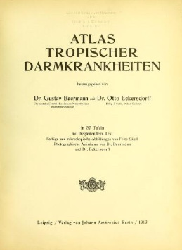 Front page of Baermann's atlas